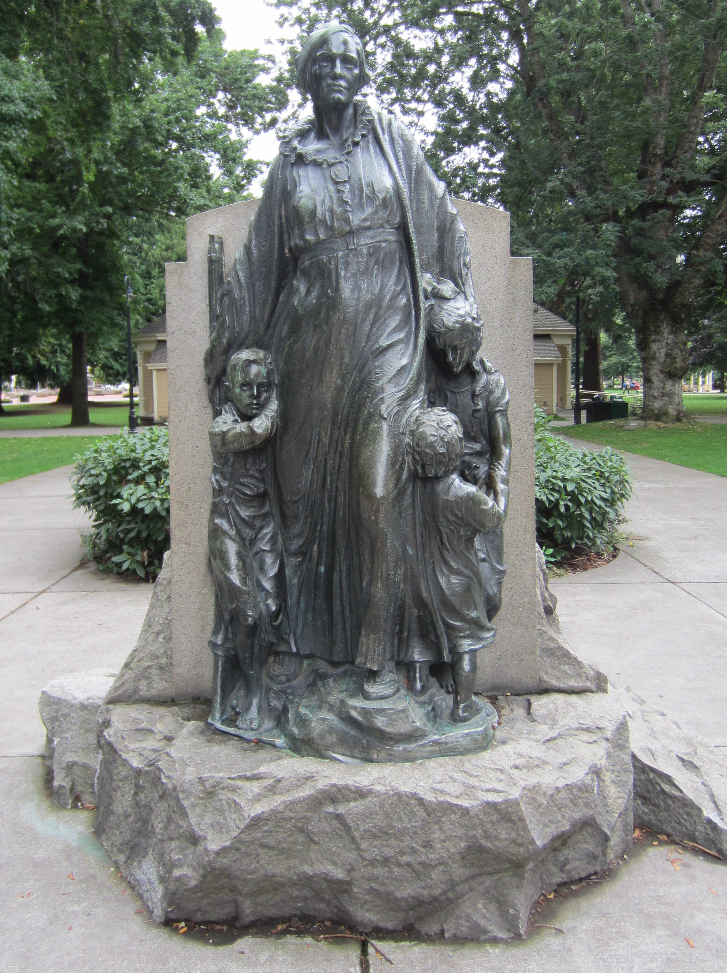 The Pioneer Memorial by Avard Fairbanks in Esther Short Park in Vancouver, Washington in September 2013